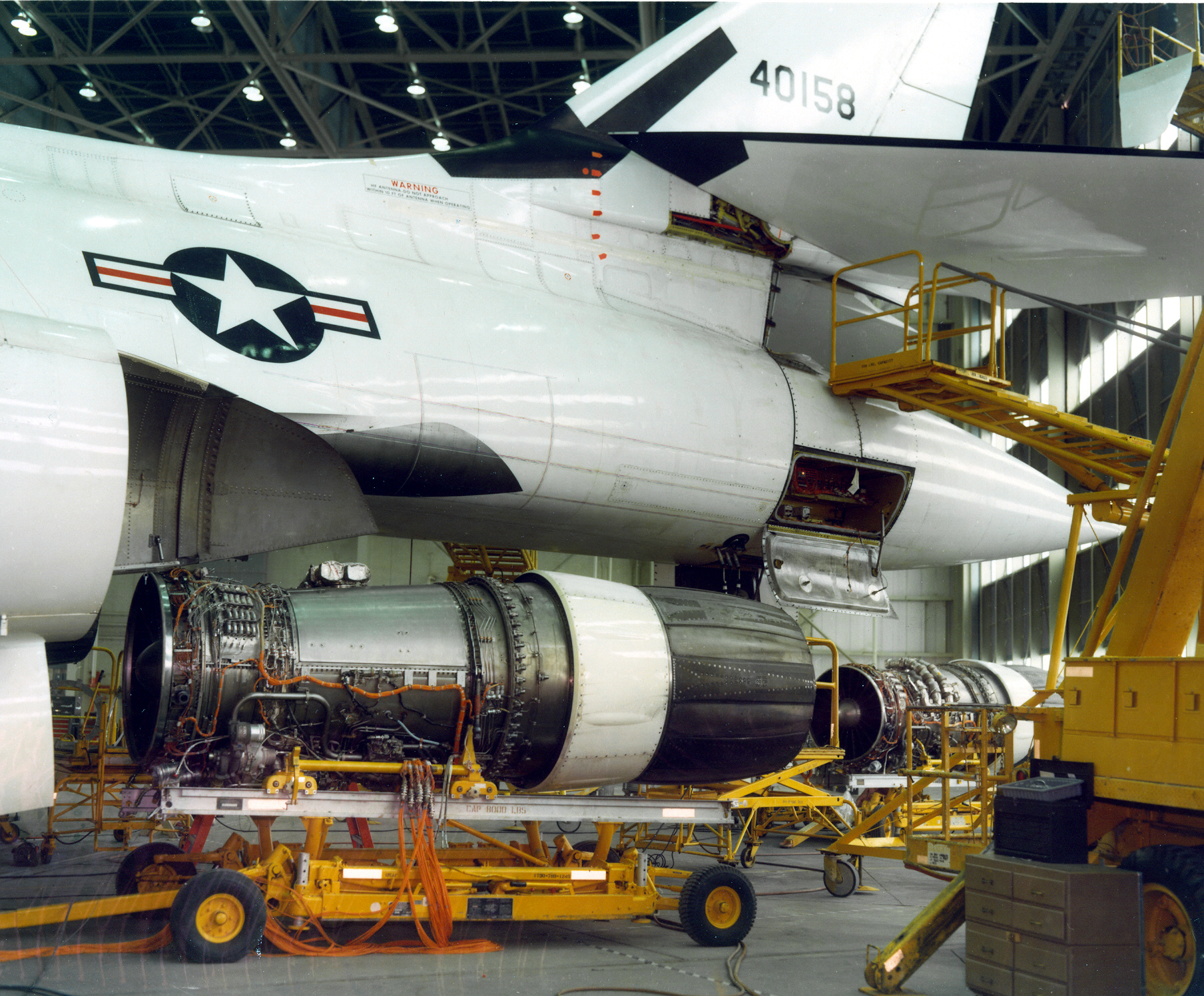 A good view of the first B-1A (74-0158) and its engines.